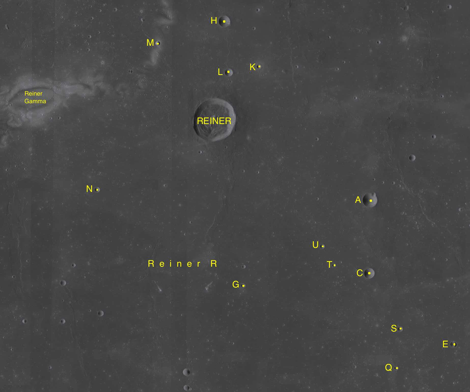 Parts of the charts LAC-56, LAC-57 used for the presentation